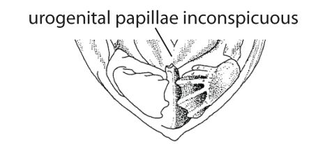 Standard Event System character depiction